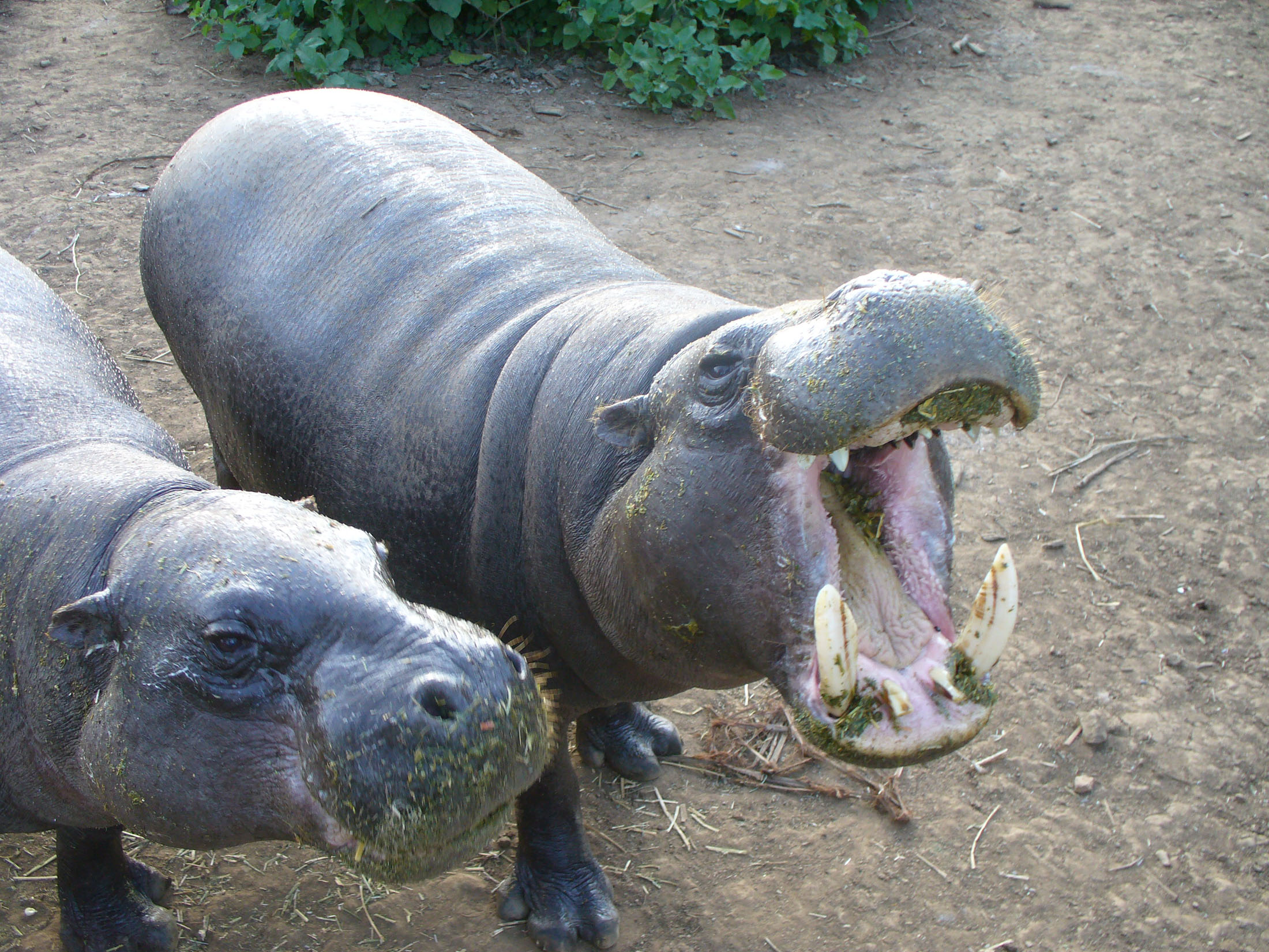 These two pygmy hippopotamus are long-time residents of the Mount Kenya Wildlife Conservancy. Here they are shown interrupting their evening meal to beg for sugar cane. Author's licensing as PD explained here